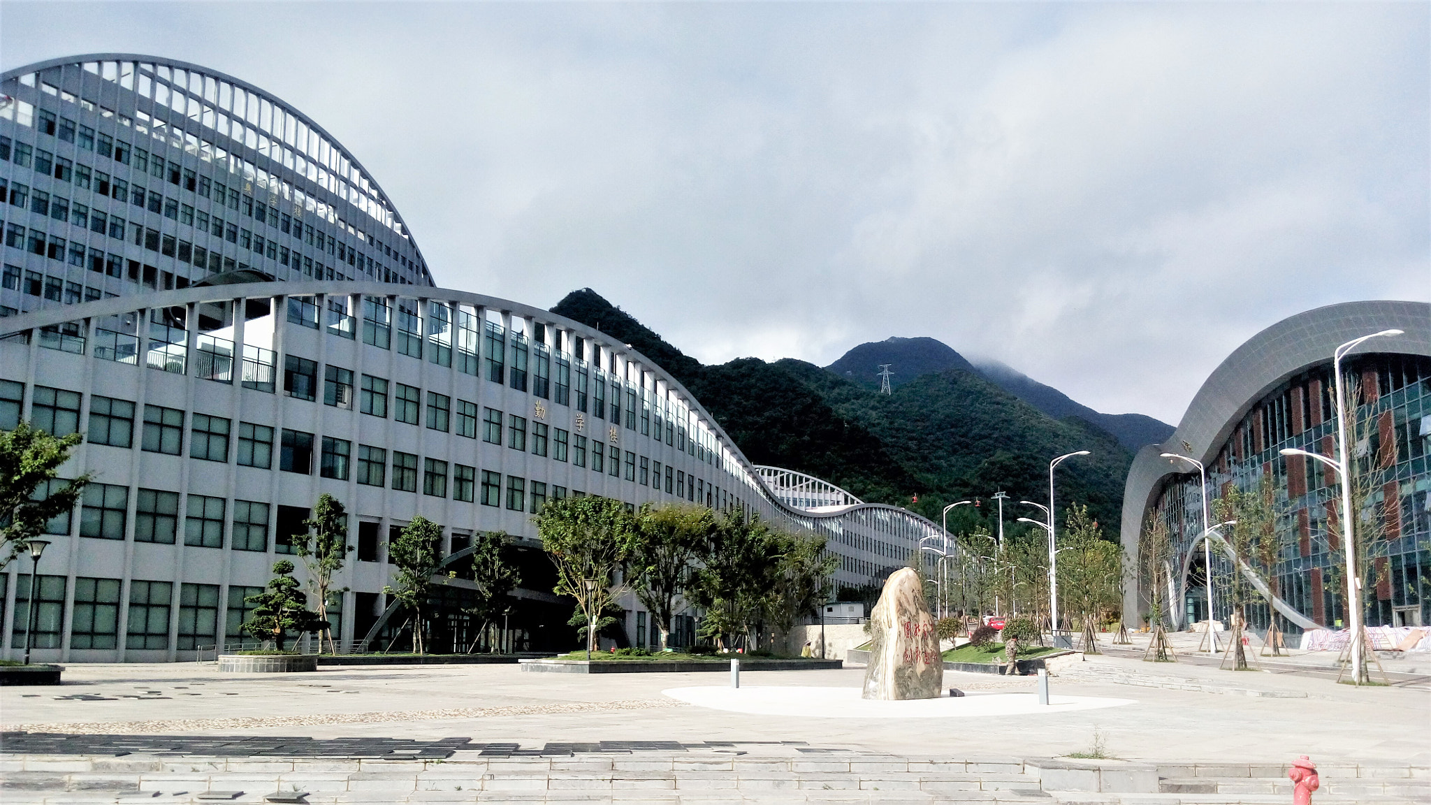 500px provided description: 六盘水师范学院新楼 [#city ,#cityscape ,#skyline ,#skyscraper ,#seafront ,#clear sky ,#pyrmont bridge ,#urban scene ,#oak street beach ,#bird's-eye view ,#coastal city ,#flamengo park]